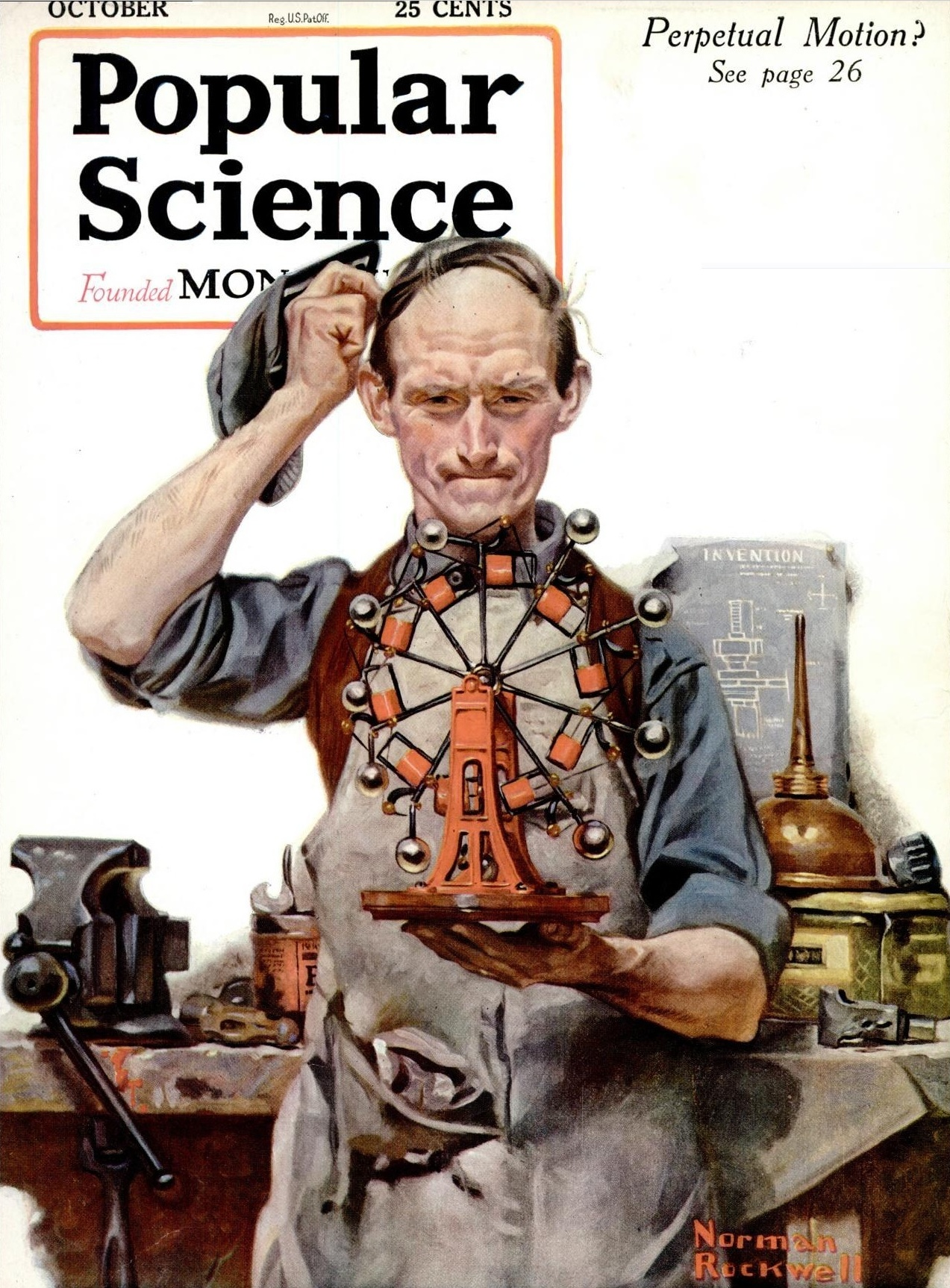 Cover of the October 1920 issue of Popular Science magazine, painted by American illustrator Norman Rockwell. It depicts an inventor working on a perpetual motion machine. The device shown is a "mass leverage" device, where the spherical weights on the right have more leverage than those on the left, supposedly creating a perpetual rotation, but there are a greater number of weights to the left, balancing the device.